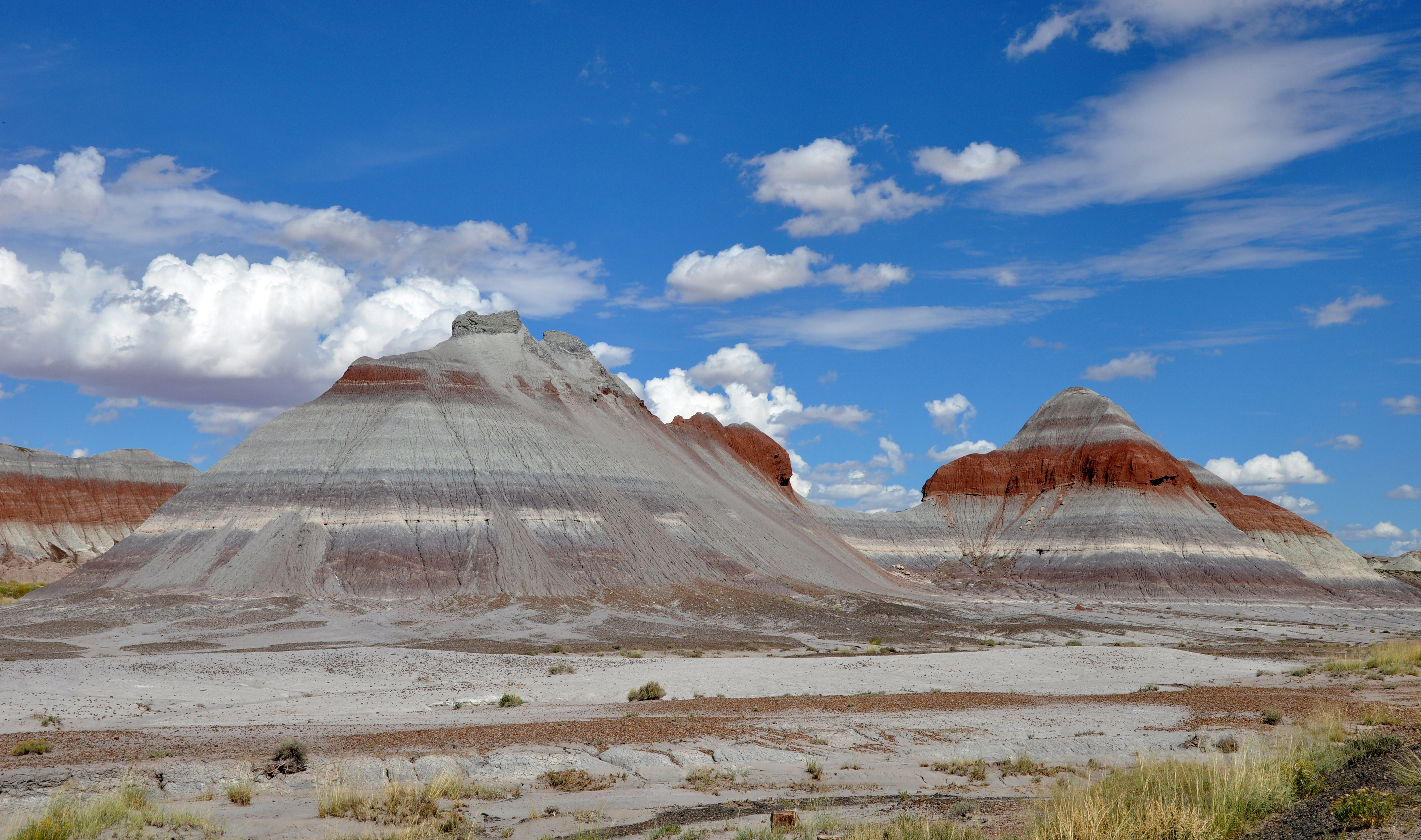 The Tepees in Petrified Forest National Park in northeastern Arizona, United States. View is toward the northwest from the main park road. According to a National Park Service (NPS) document, rock strata exposed in the Tepees area of the park belong to the Blue Mesa Member of the Chinle Formation and are about 220 to 225 million years old. The colorful bands of mudstone and sandstone were laid down during the Triassic, when the area was part of a huge tropical floodplain.